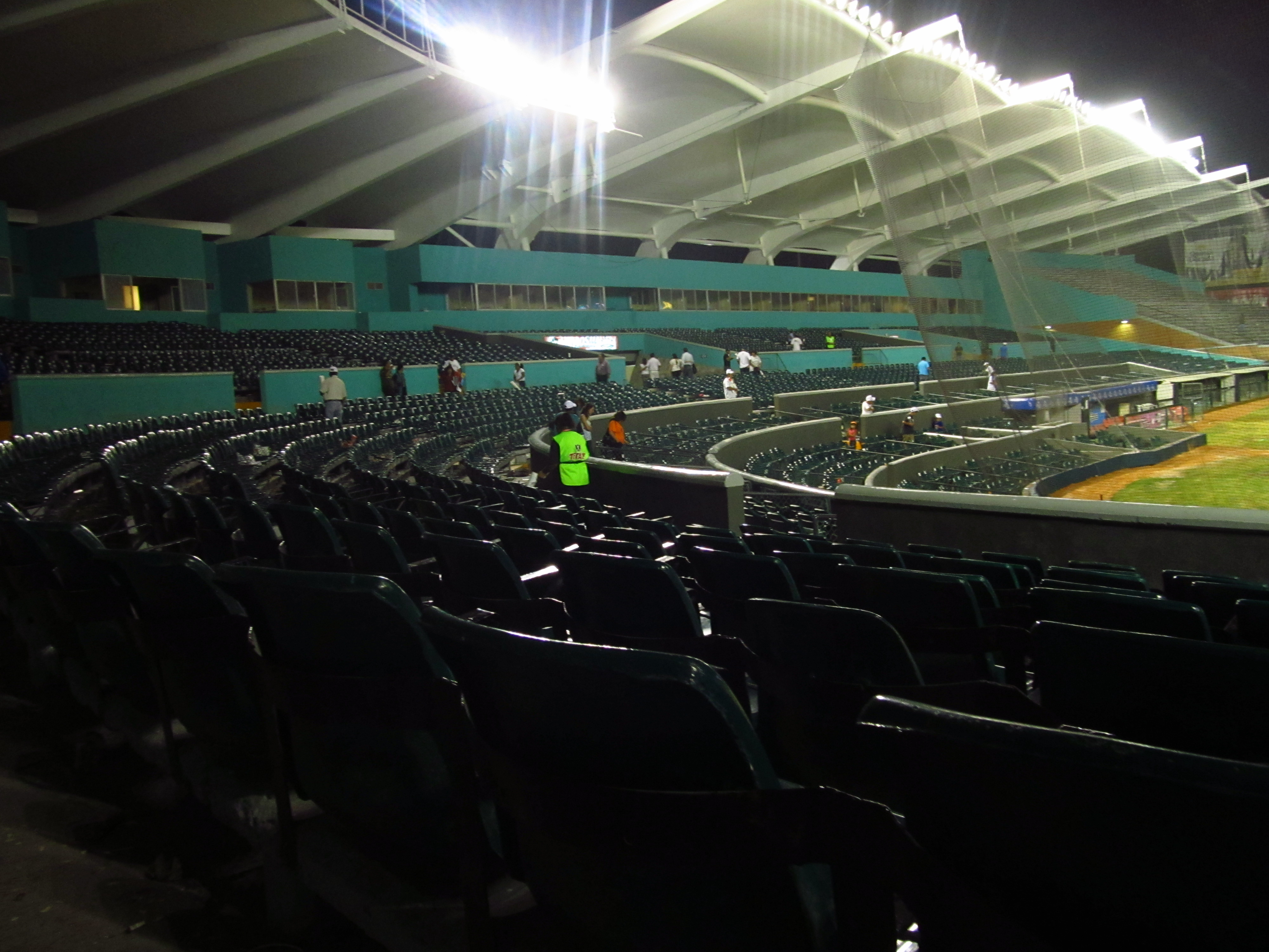 New